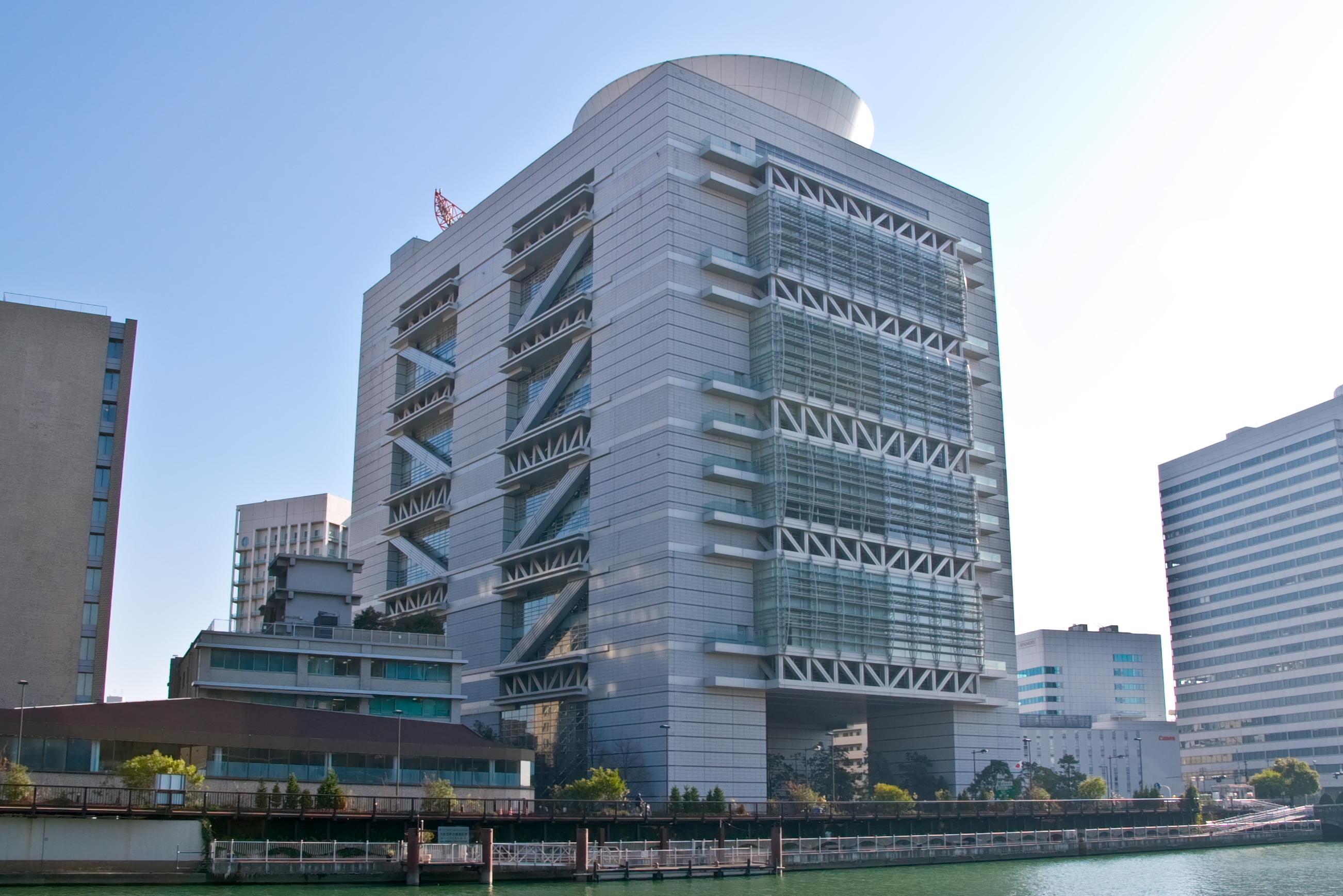 Photograph of Osaka International Convention Center, aka Grand Cube Osaka, in Kita-ku, Osaka, Osaka Prefecture, Japan.